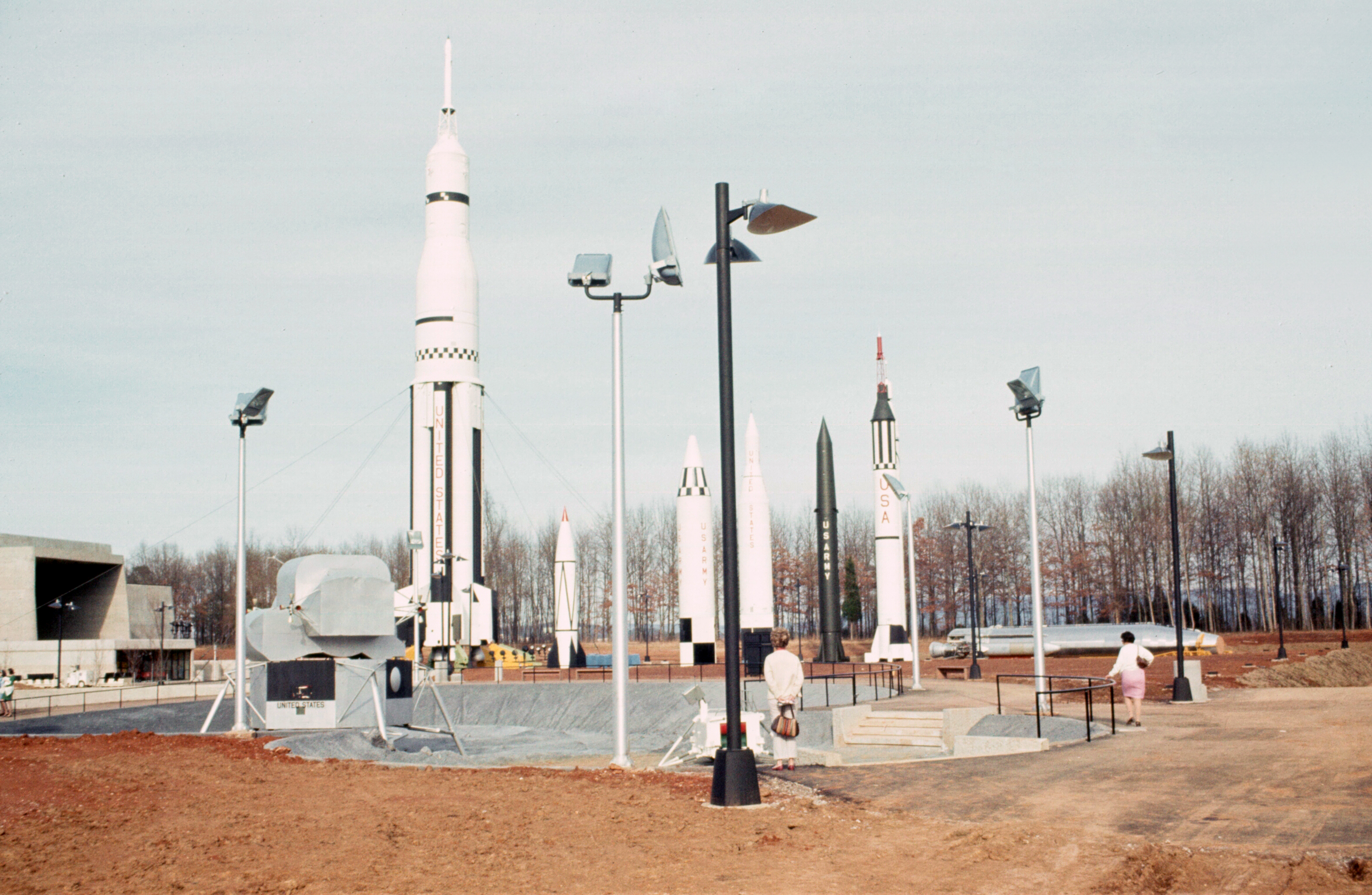 Rockets rise above a freshly graded landscape and completed lunar landscape at the newly-opened Alabama Space and Rocket Center.